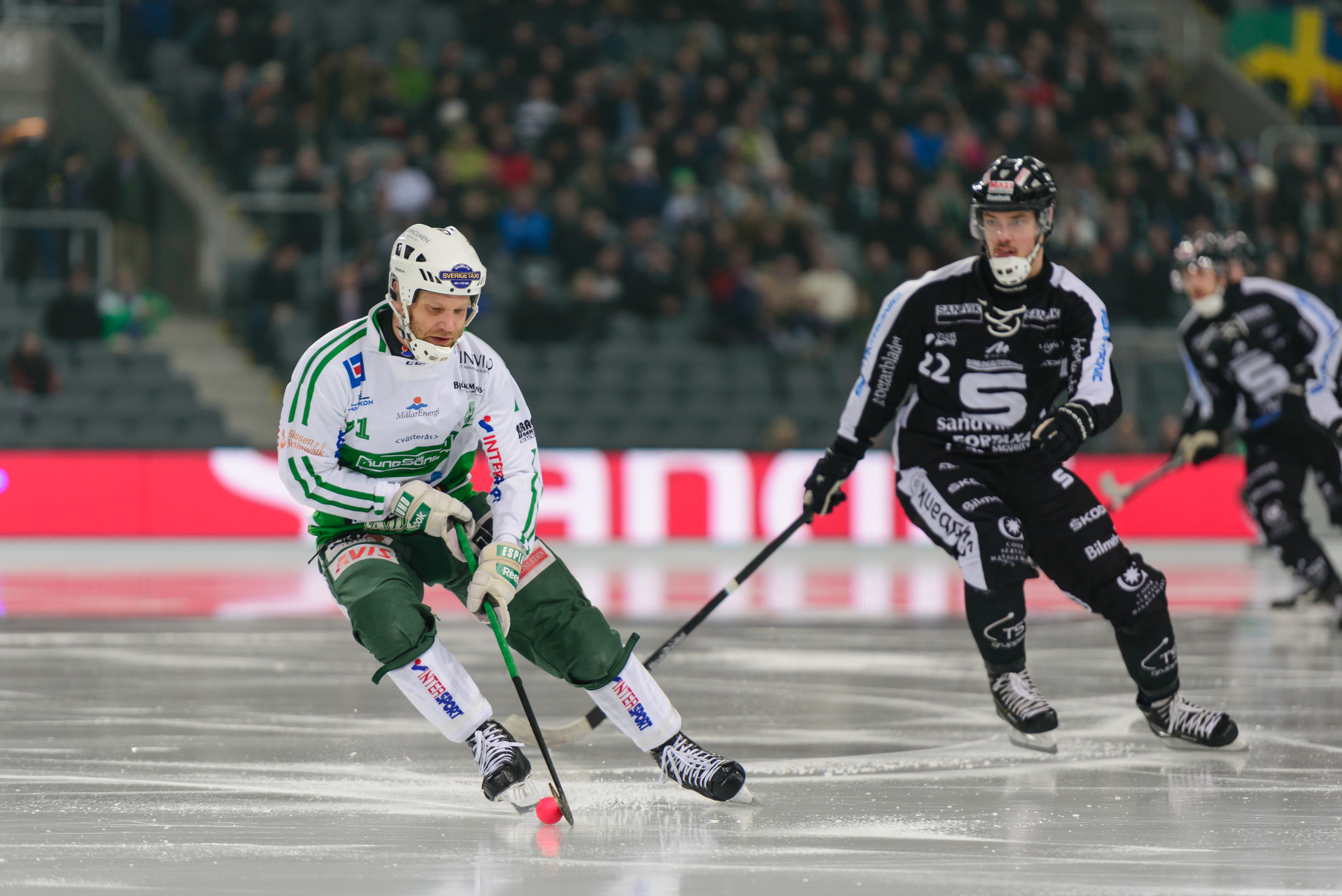 Johan Esplund. Swedish men's bandy championship final game of 2015, Sandvikens AIK (black)-Västerås SK (green/white) 4-6.